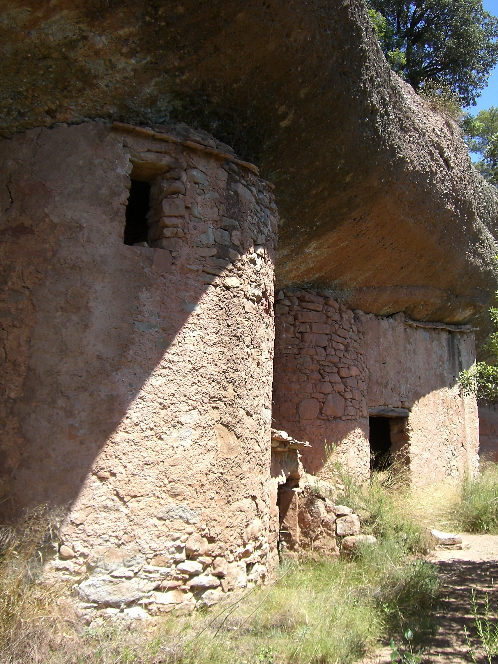 Wine press of Balmes Roges, Puig Gili mountain range, Sant Llorenç del Munt i l'Obac Natural Parc, Barcelona, España.